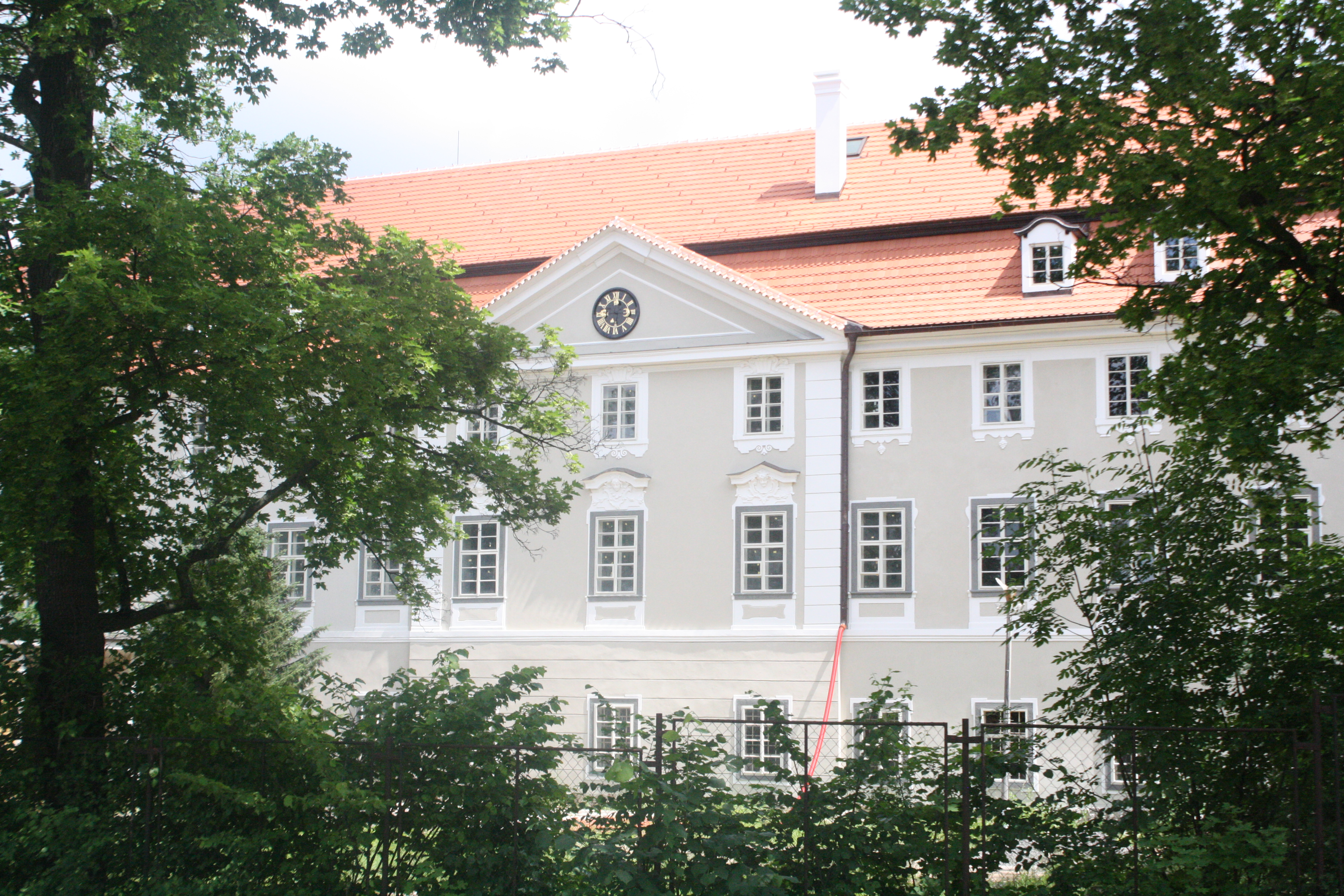 Osov Castle